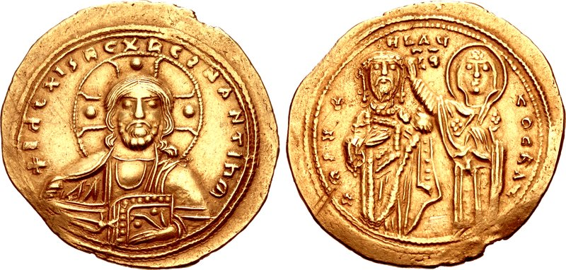 Michael VI Stratioticus. 1056-1057. AV Histamenon Nomisma (24mm, 4.37 g, 6h). Constantinople mint. + IҺS XIS RЄX RЄςNANTIҺm, facing bust of Christ Pantokrator; behind, cross within nimbus crown / + mIXA HL AЧ τOCRAτ, Michael standing facing, wearing crown with pendilia and jeweled chlamys, holding globus cruciger, and being crowned by the Theotokos standing facing to right, wearing nimbus crown, pallium, and maphorium; barred MӨ between. DOC 1a; SB 1840; Berk 310 (this coin illustrated). Good VF, minor edge scuff and a few small scratches. Extremely rare.